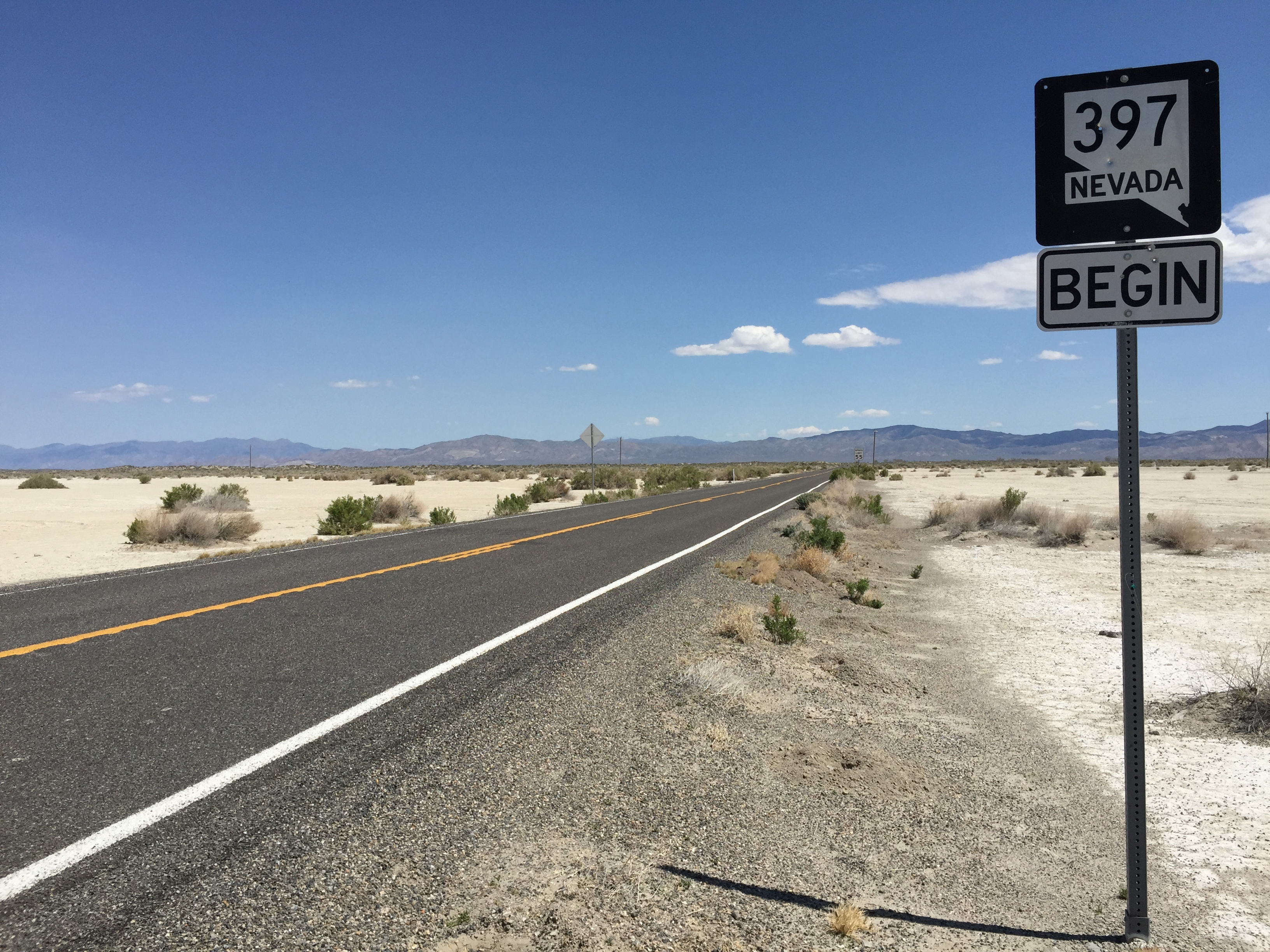 View northeast from the southwest end of Nevada State Route 397 in Pershing County, Nevada